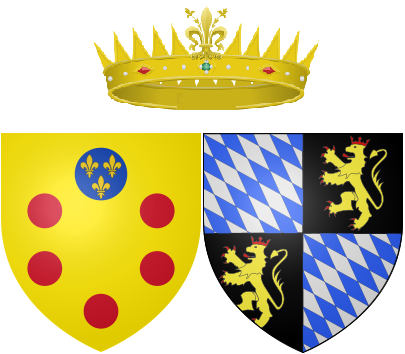 Arms of Violante Beatrice of Bavaria as Grand Princess of Tuscany